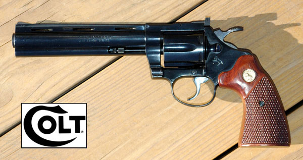 Photo © by Jeff Dean